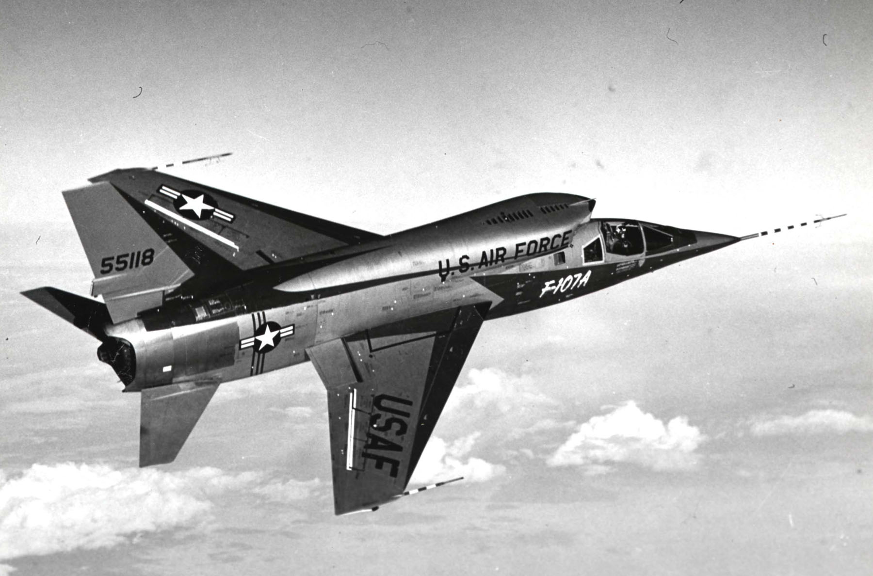 North American Aviation F-107A "Ultra Sabre" in flight